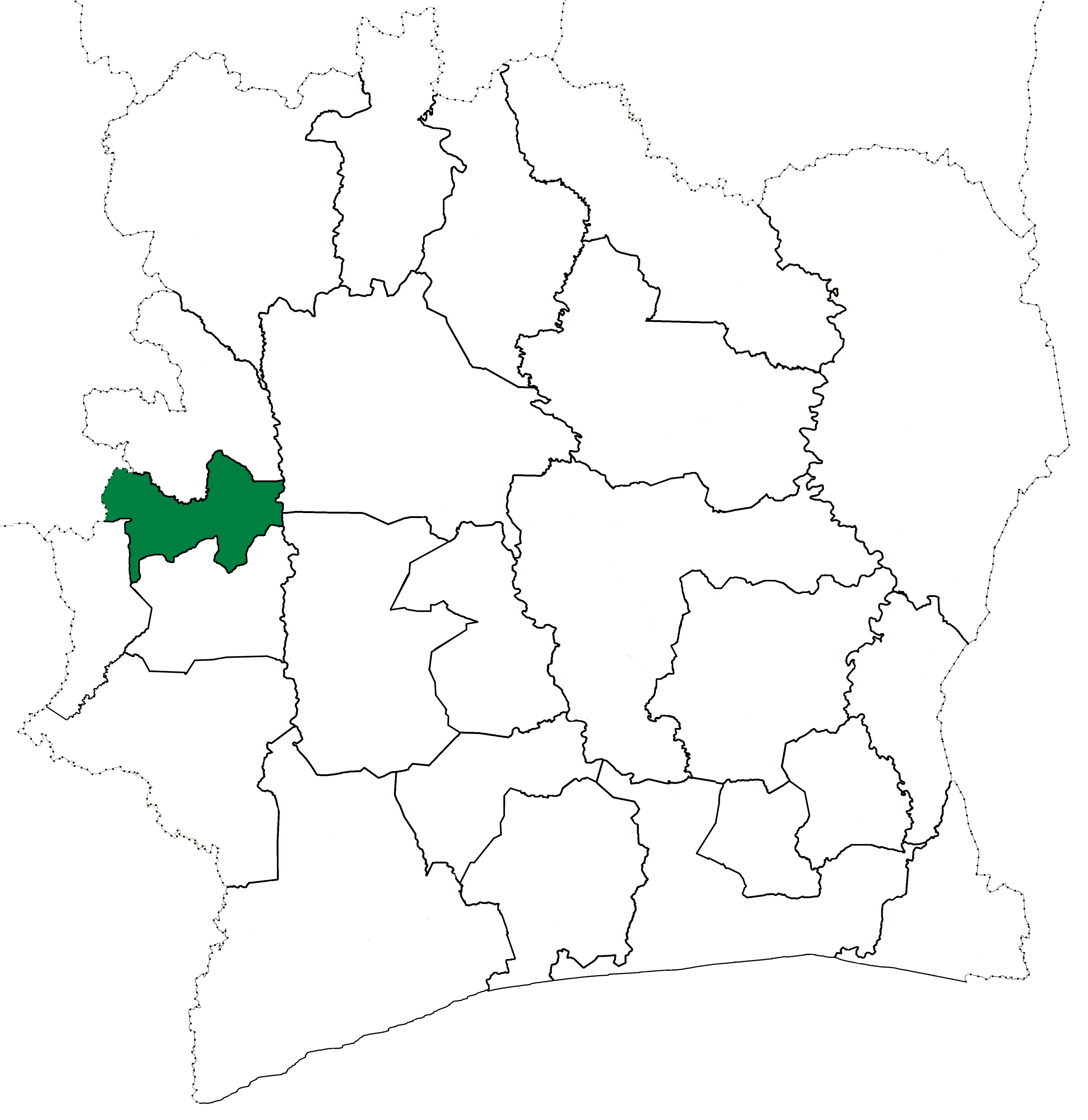 Locator map for Biankouma Department in Côte d'Ivoire when the 24 new departments were created in 1969. Biankouma Department kept these boundaries until 2013, but other departments began to be divided in 1974.